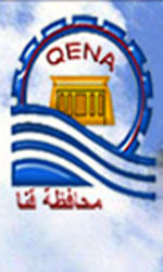 Emblem of the Qena Governorate.